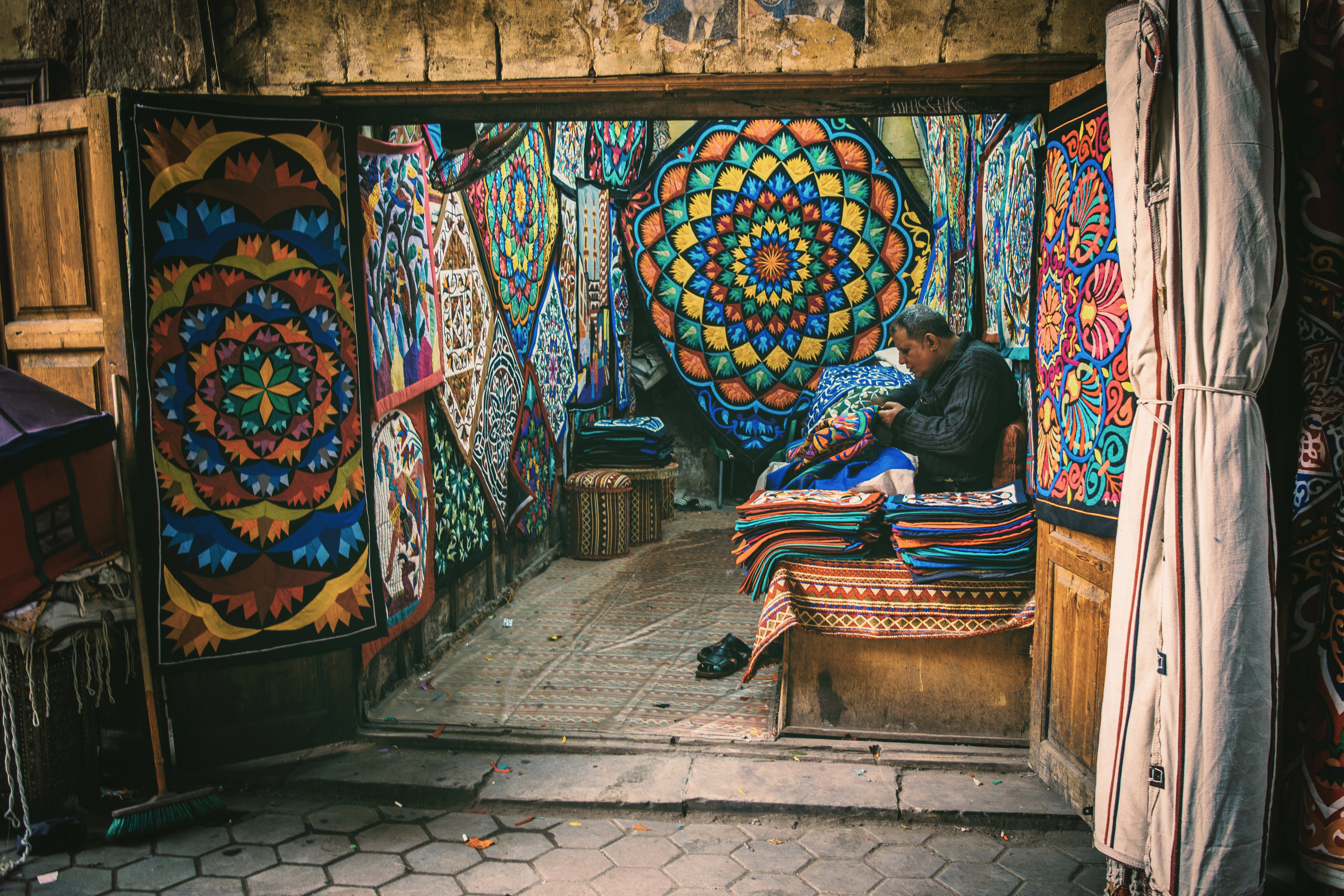 This is an image of "African people at work" from Egypt